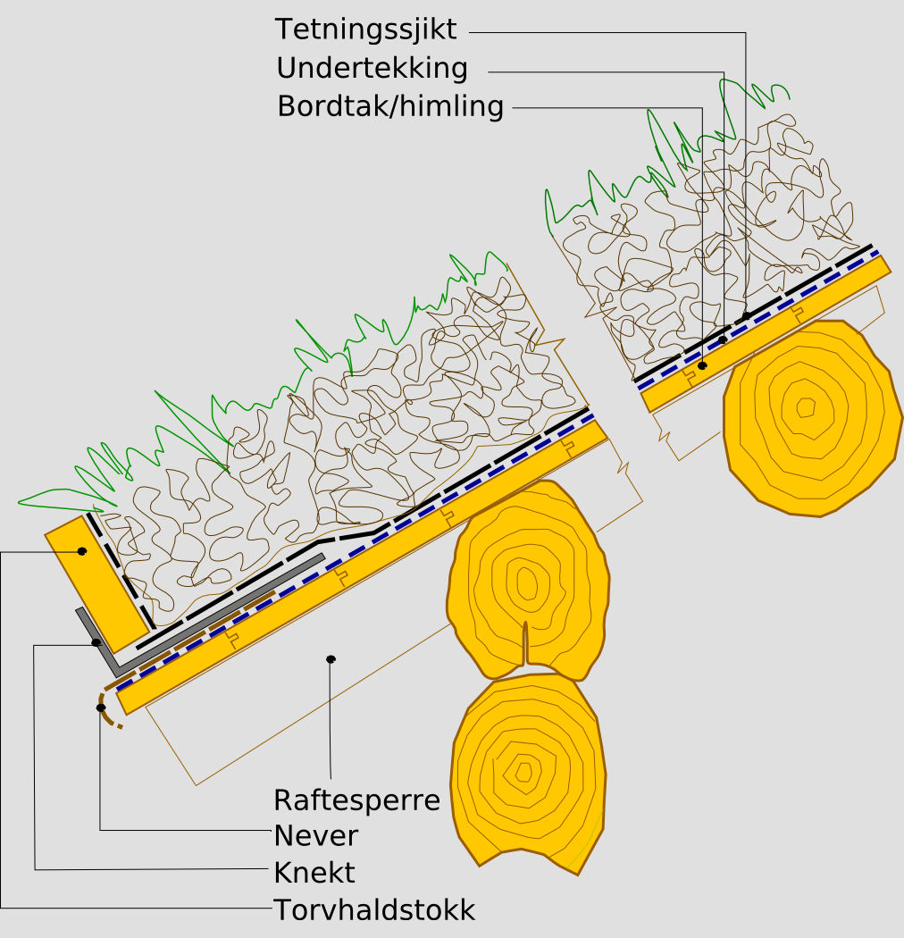 Turfed roof, green roof or grass roof, taditional construction slightly modified with membran of modern materials. Norway.